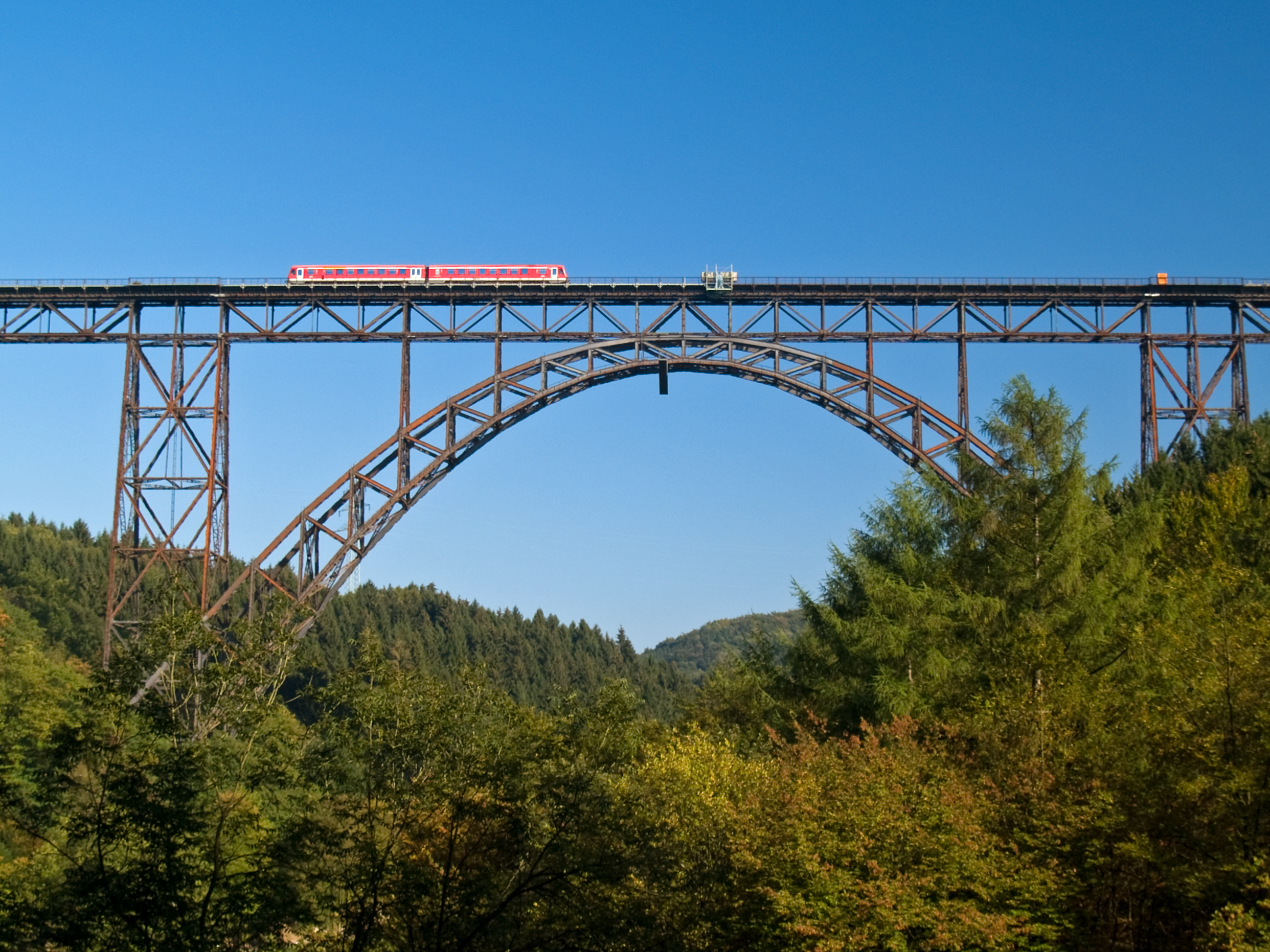 Muengsten Bridge between Remscheid and Solingen with DB-series 628